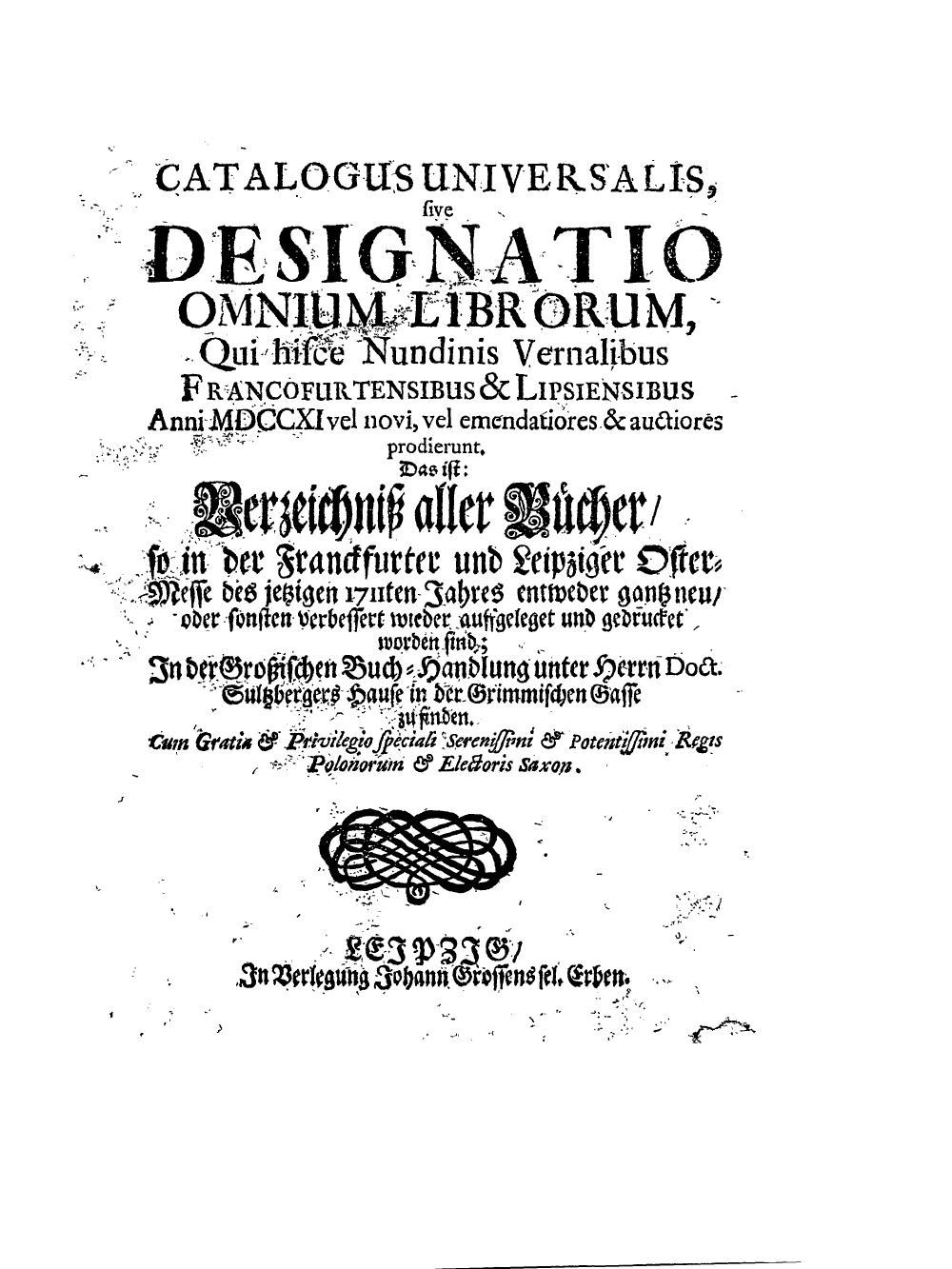 Titel page of the German Messkatalog (Term Catalogue) published for Easter 1711